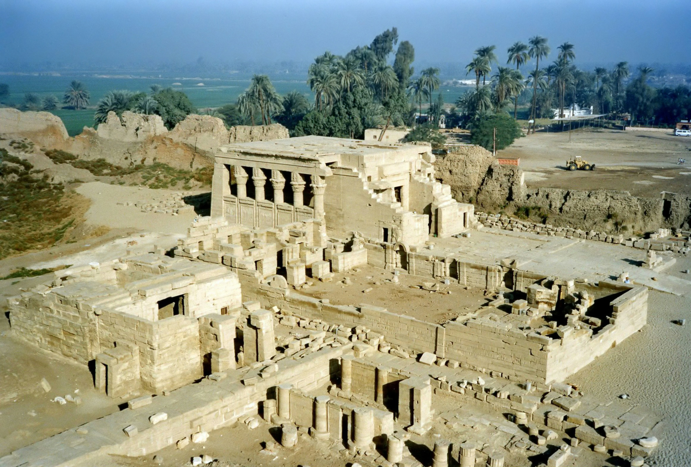 Part of Dendera Temple complex, Egypt